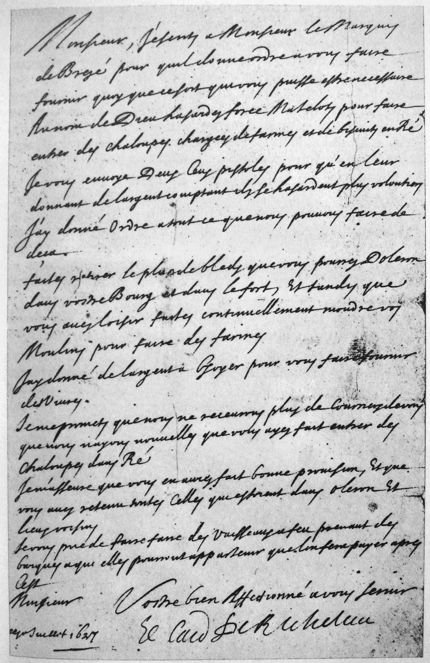 Letter_of_Richelieu_to_Claude_de_Razilly_asking_him_to_do_everyhting_in_his_power_to_relieve_Re_Island_July_1627.